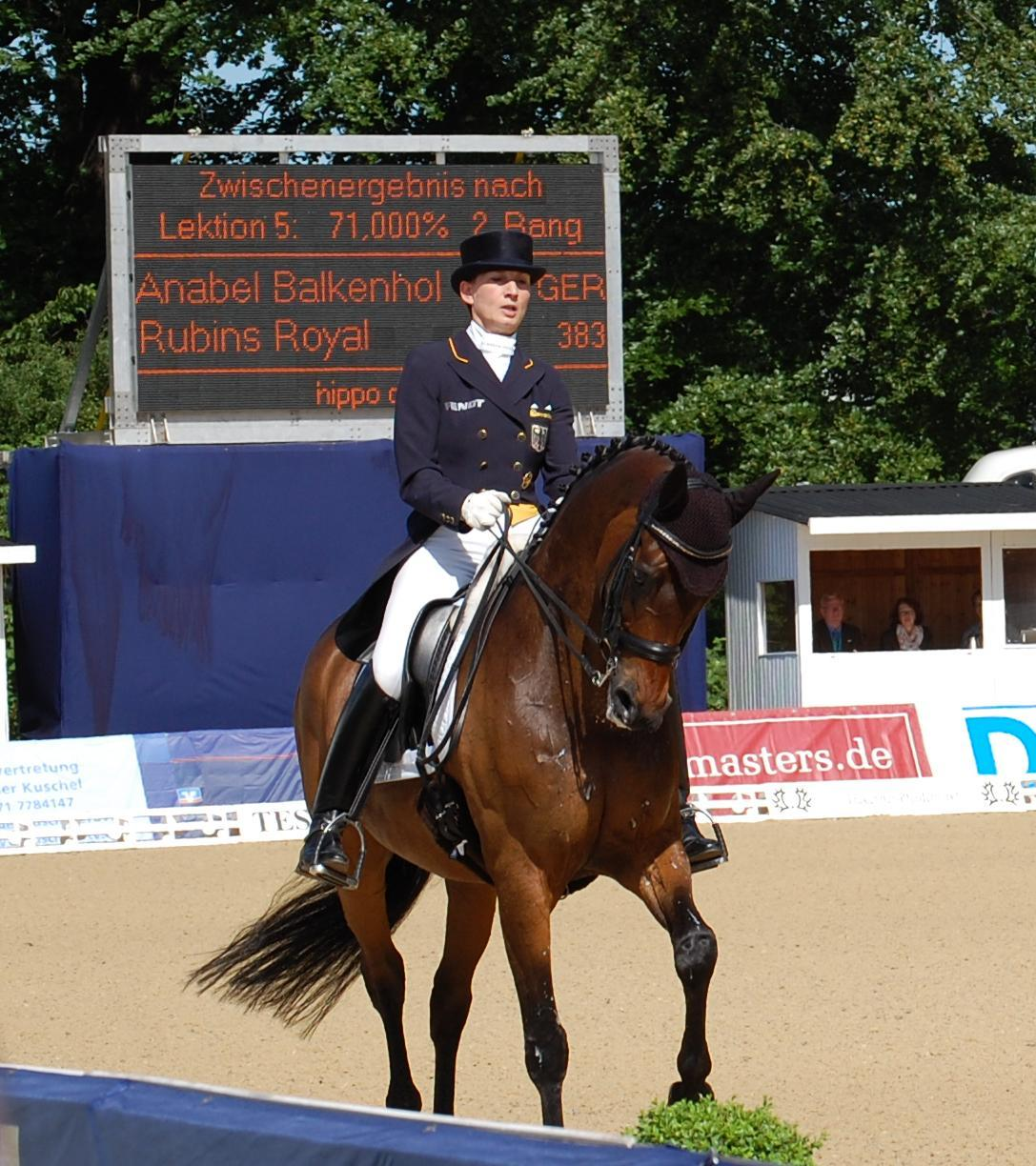 German dressage rider Anabel Balkenhol with Rubins Royal, Grand Prix de Dressage at the CDI 4* German Dressage Derby